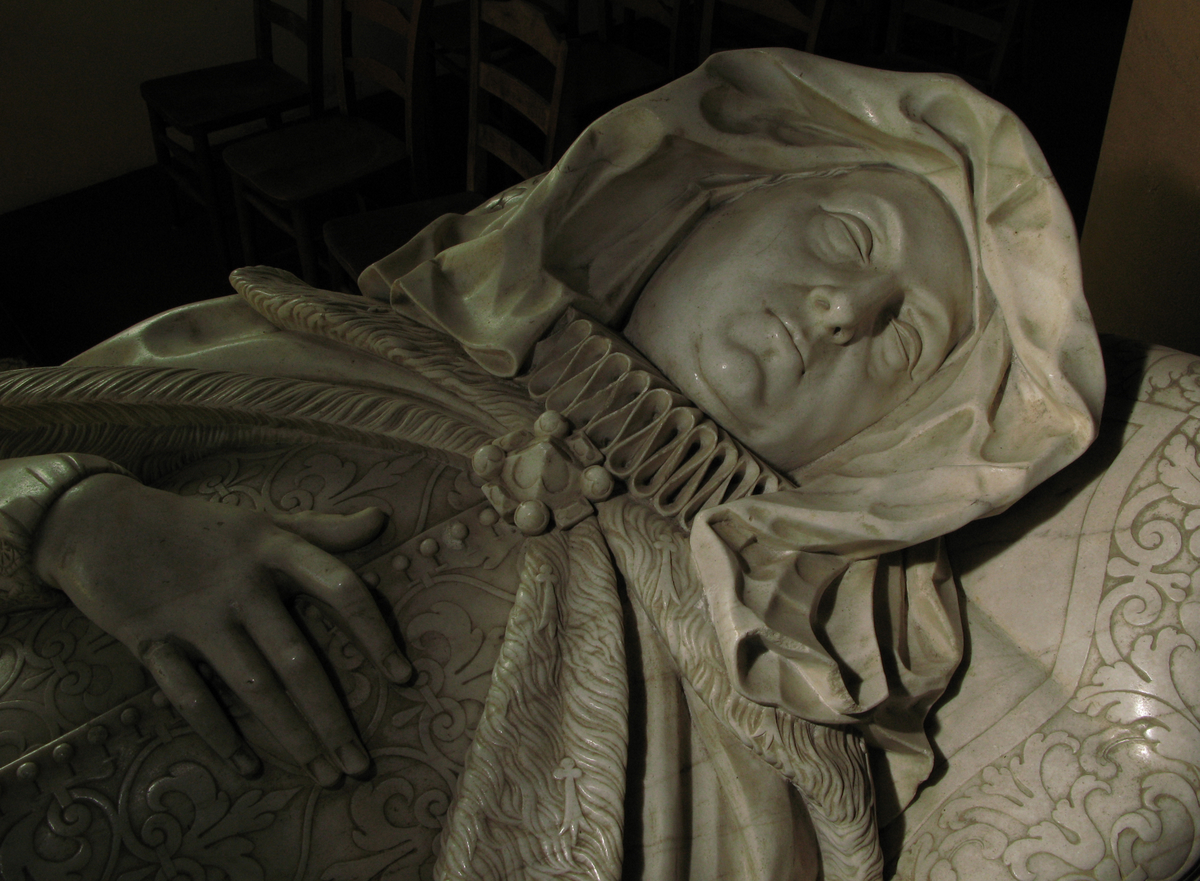 Monument to Lady Elizabeth Carey (1545/50–1630), also known as Elizabeth Danvers, née Neville) in St Michael's parish church, Church Stowe, Northamptonshire, England. The stonework is by Nicholas Stone, master mason to James I (and then Charles I). It was put up during the subject's lifetime (1617-20). The quality of the carving is extremely fine.